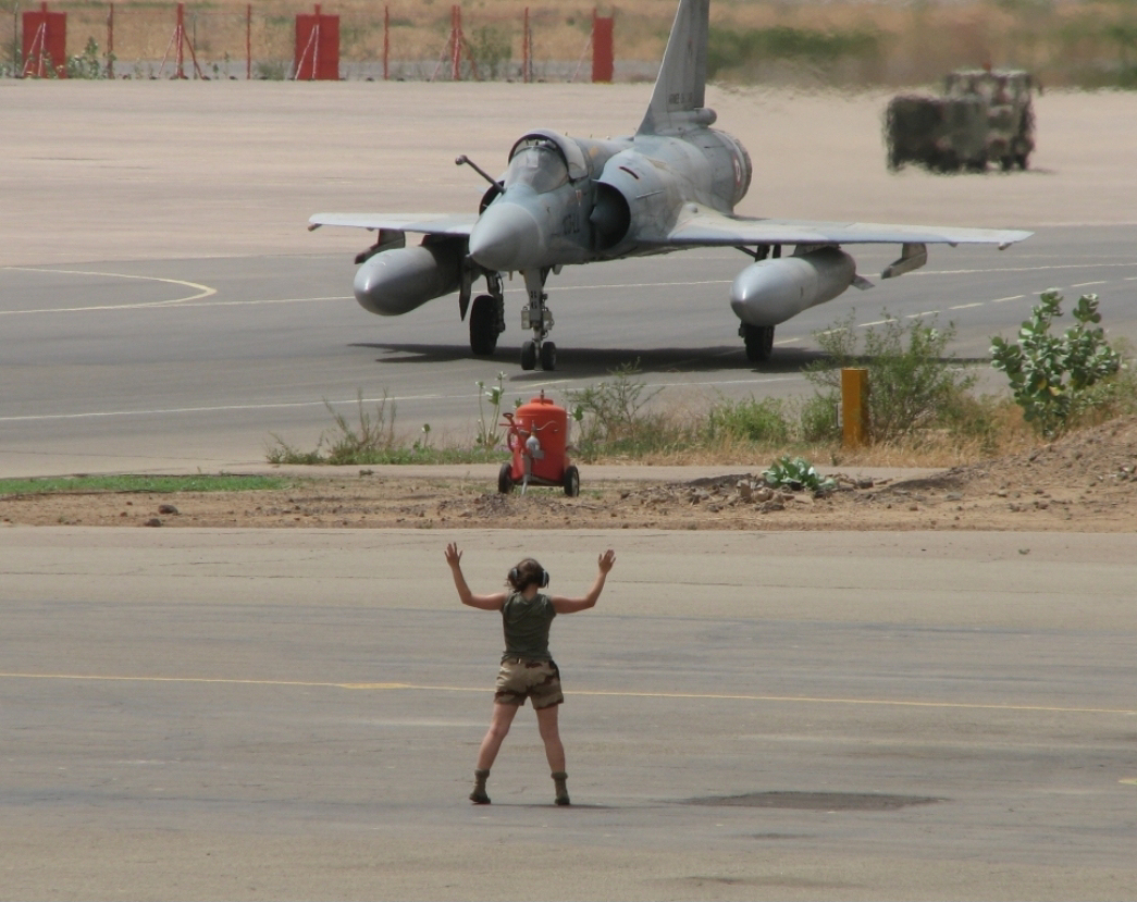 French Air Force Dassault Mirage 2000C being marshalled at N'djamena Airport